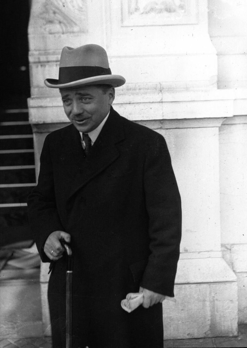 Austrian christian social politician and Federal Chancellor Engelbert Dollfuß in Geneva, 1933